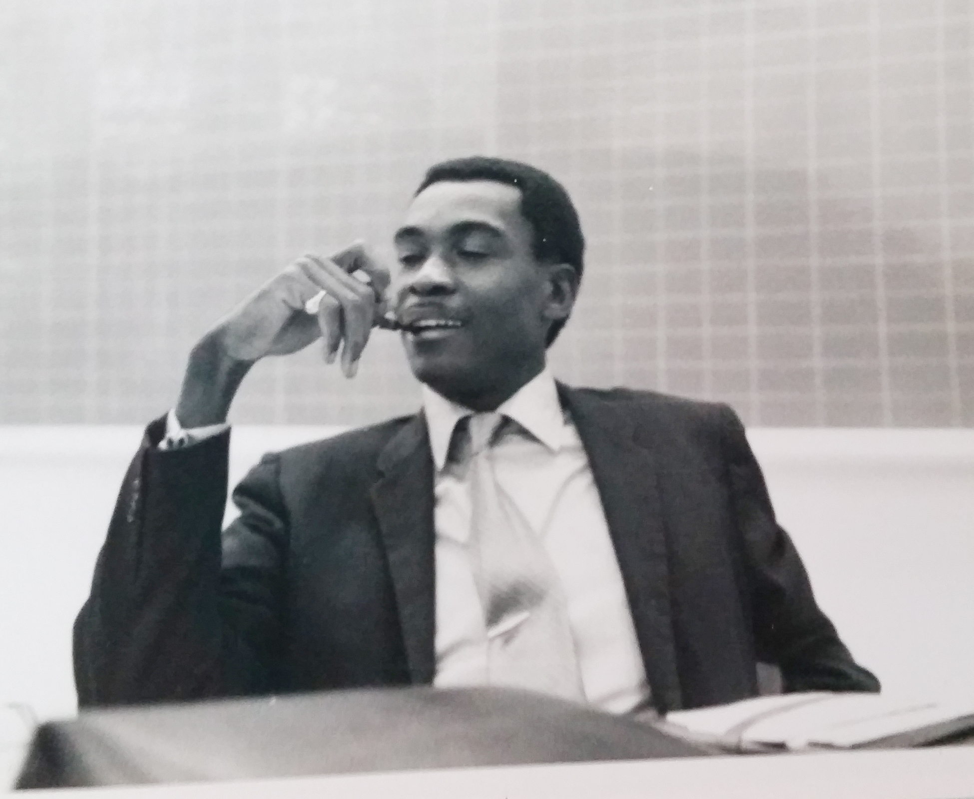 "Duffy" at Coastal States Life Insurance Co. FEB 1979